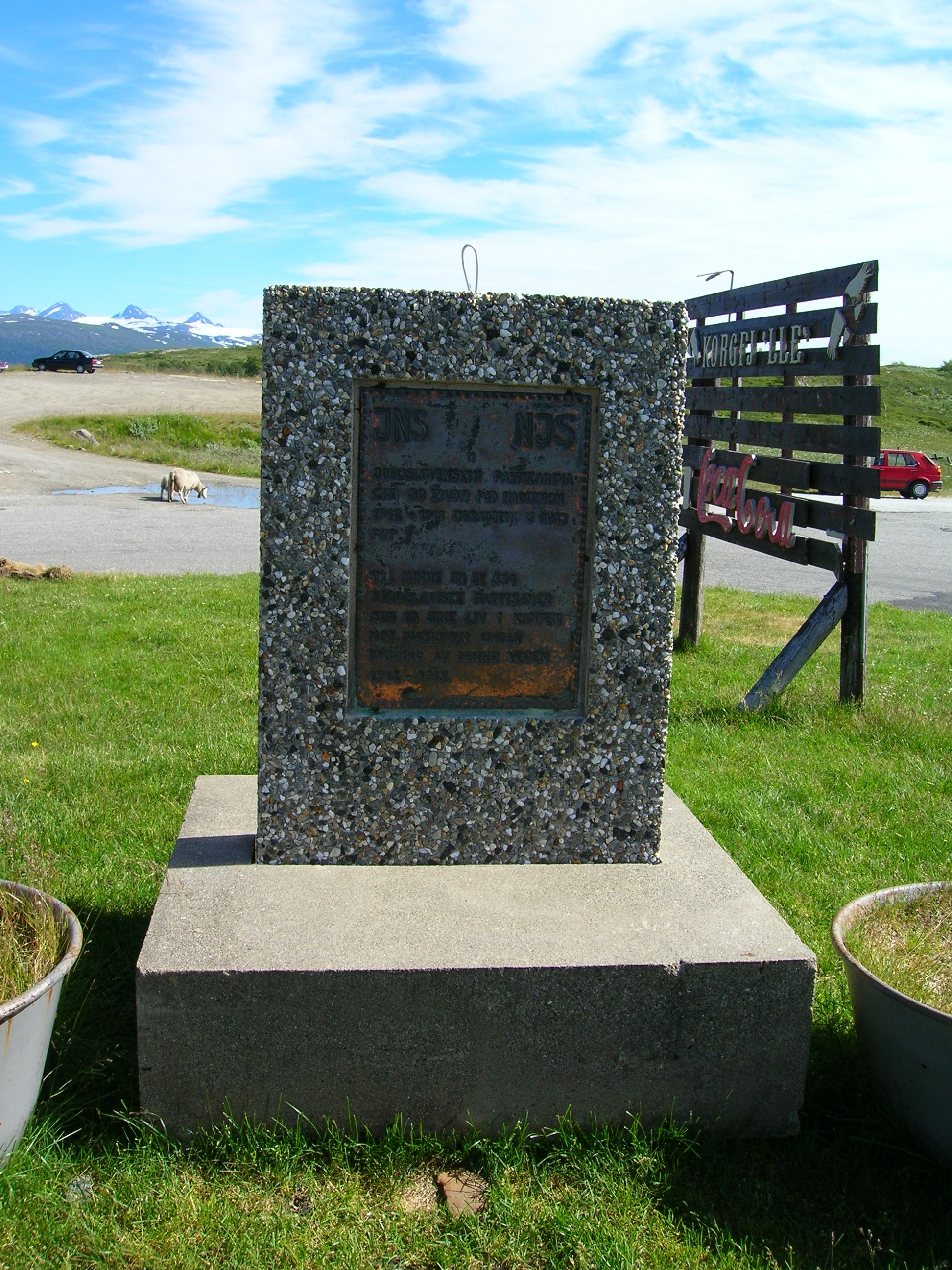 Memorial stone for Jugoslav partisans, who builded the European route over Korgfjellet, between the municipalities of Vefsn and Hemnes during World War II, as slave labour for the Nazi occupation force. Photo on Korgfjellet, Nordland county, Norway, on July 22, 2007 with a Nikon Coolpix 5600 5,1 Megapixel camera.